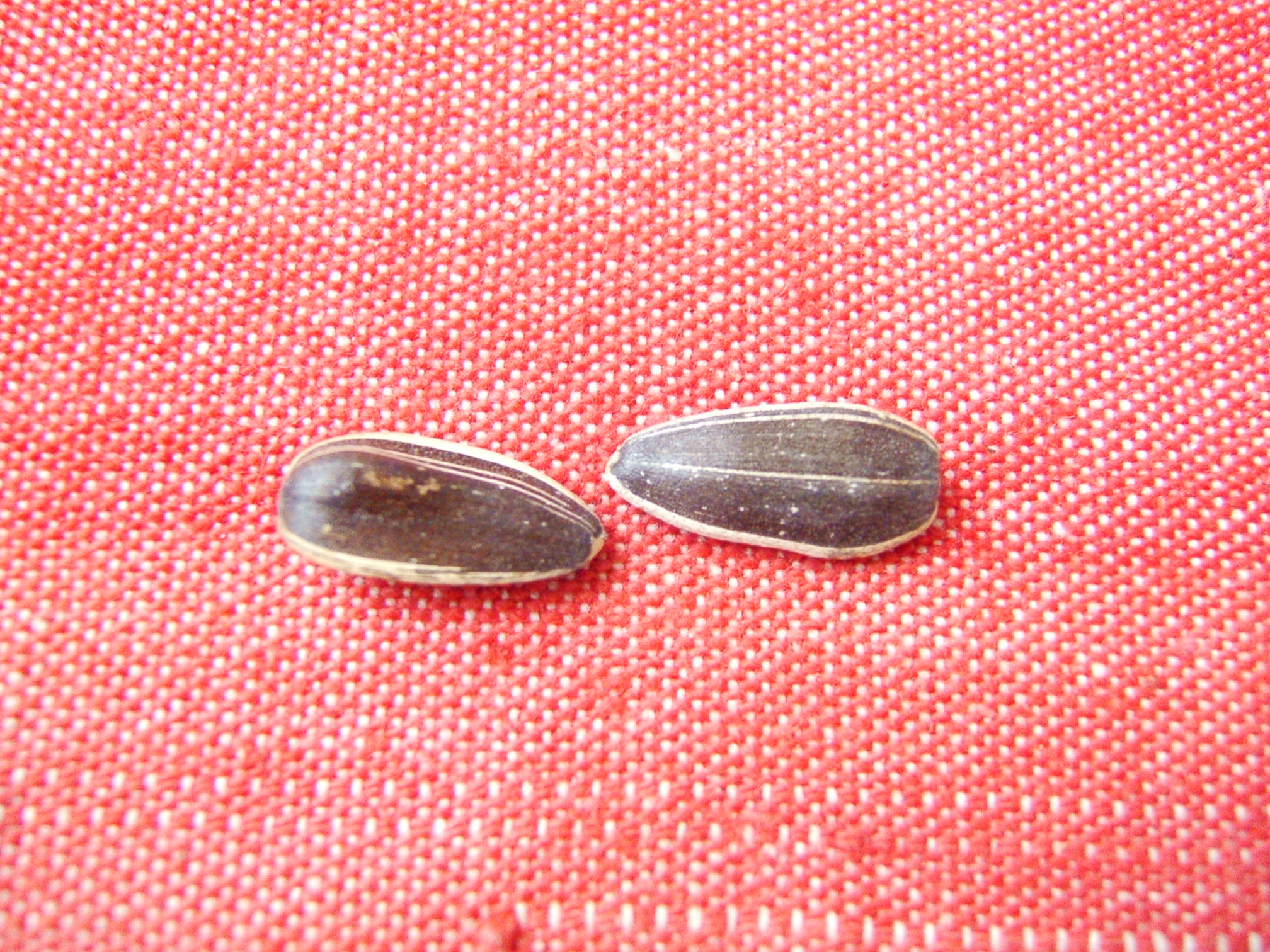 Sunflower seeds on red tablecloth